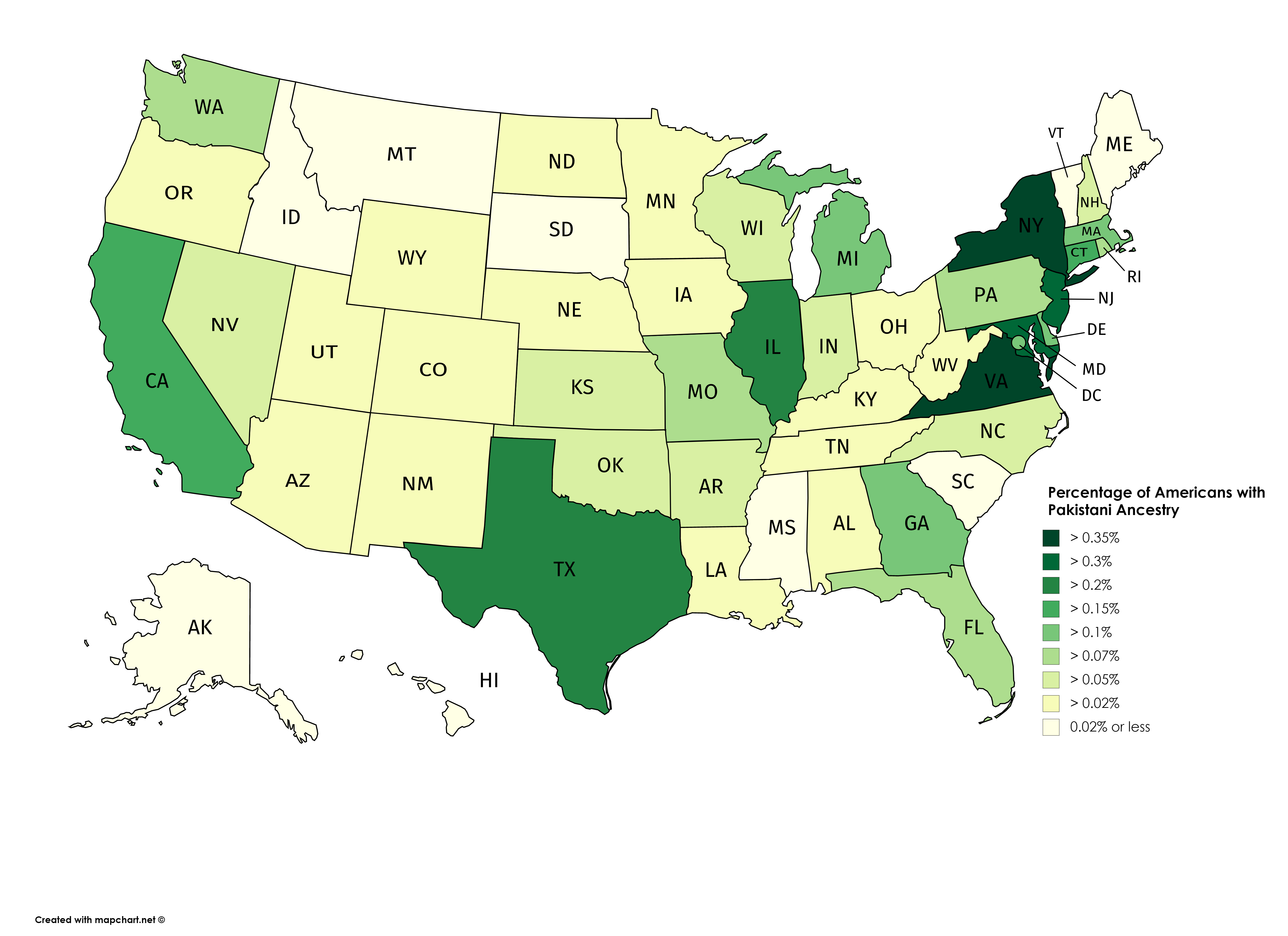 This is a map showing states by the percentage of Americans they have claiming Pakistani Ancestry in 2018 according to the ACS's 5-year Estimates.